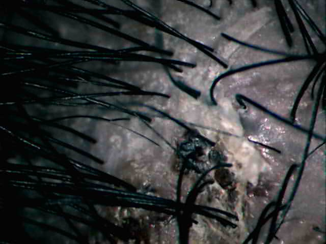 "Dry dandruff" (description translated from Japanese image caption in this article)